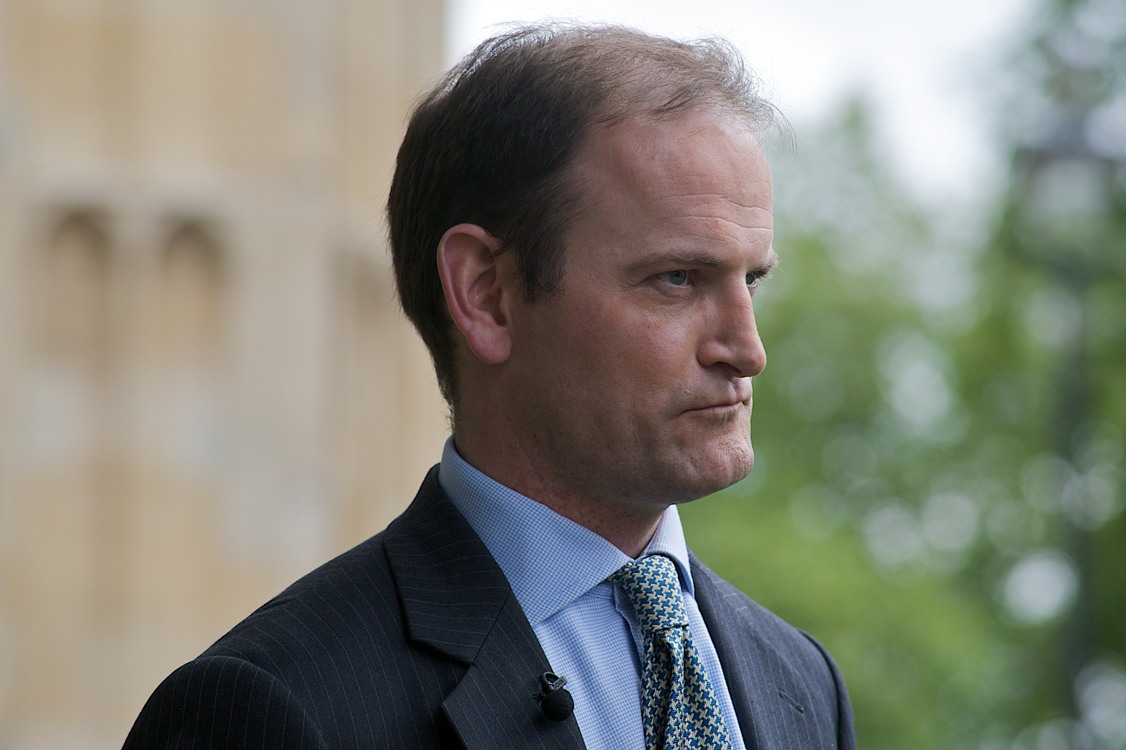 Douglas Carswell, British politician, on the day Michael Martin announced his resignation as Speaker of the British House of Commons.